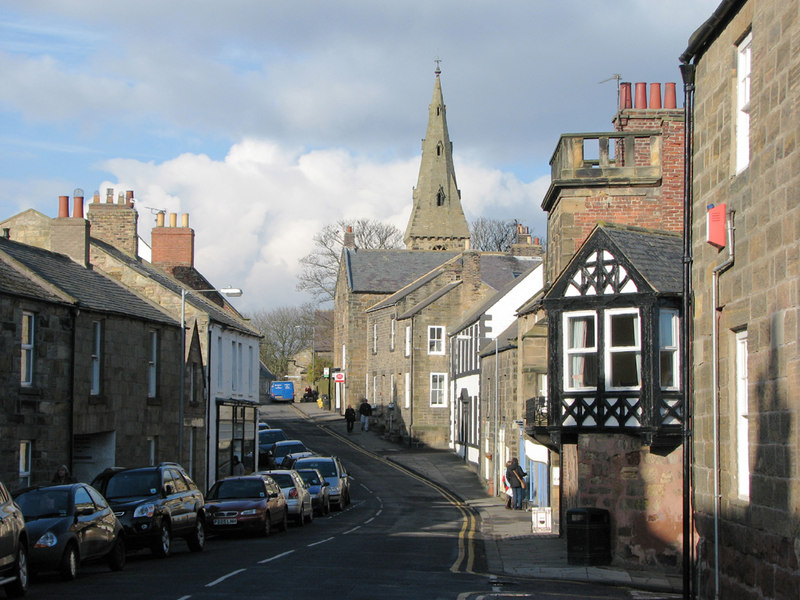 Alnmouth: Northumberland Street The spire of St John's Church is in the centre of the picture.